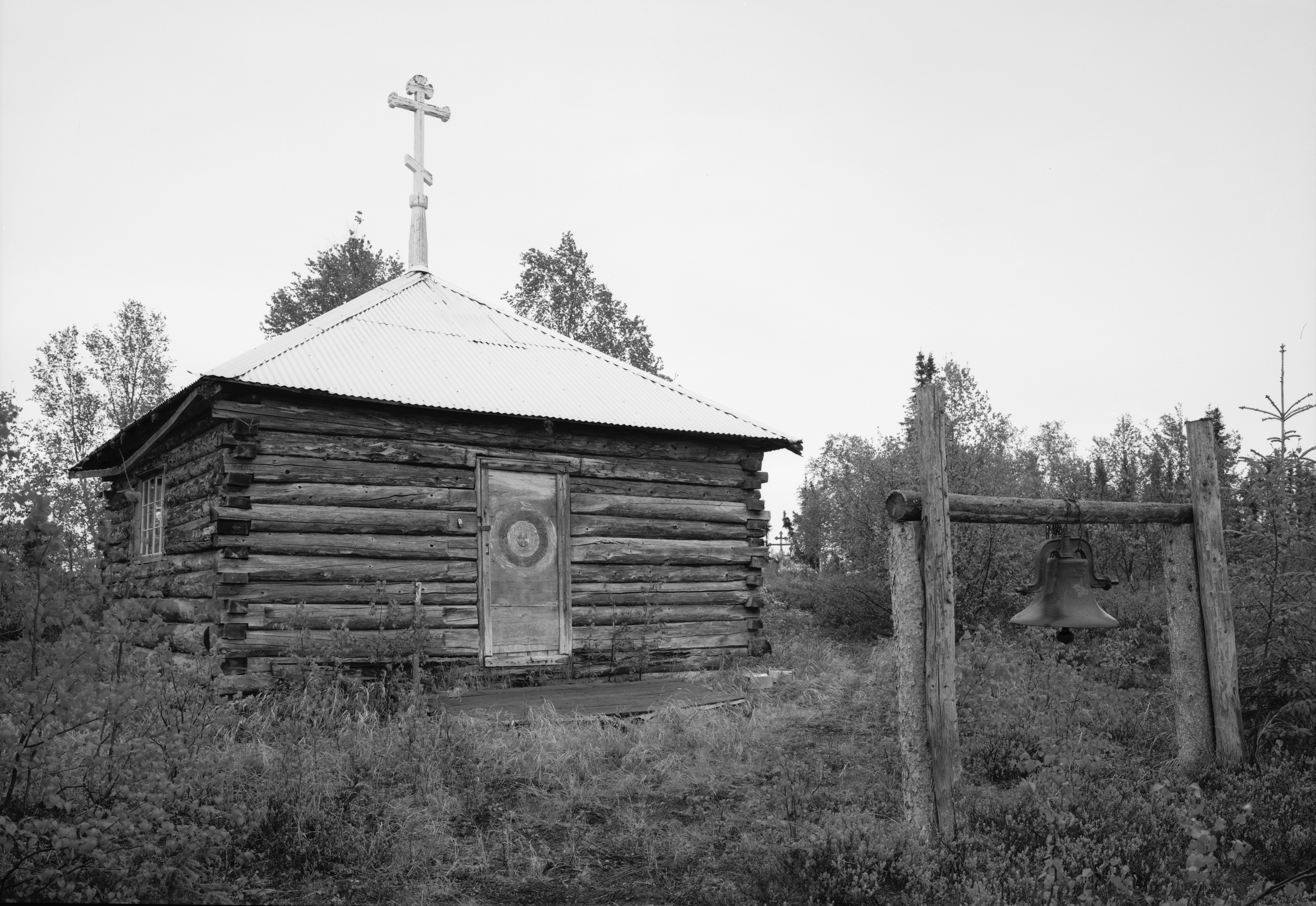 Saints Constatine & Helen Russian Orthodox Church, Lime Village, Bethel Census Area, Alaska